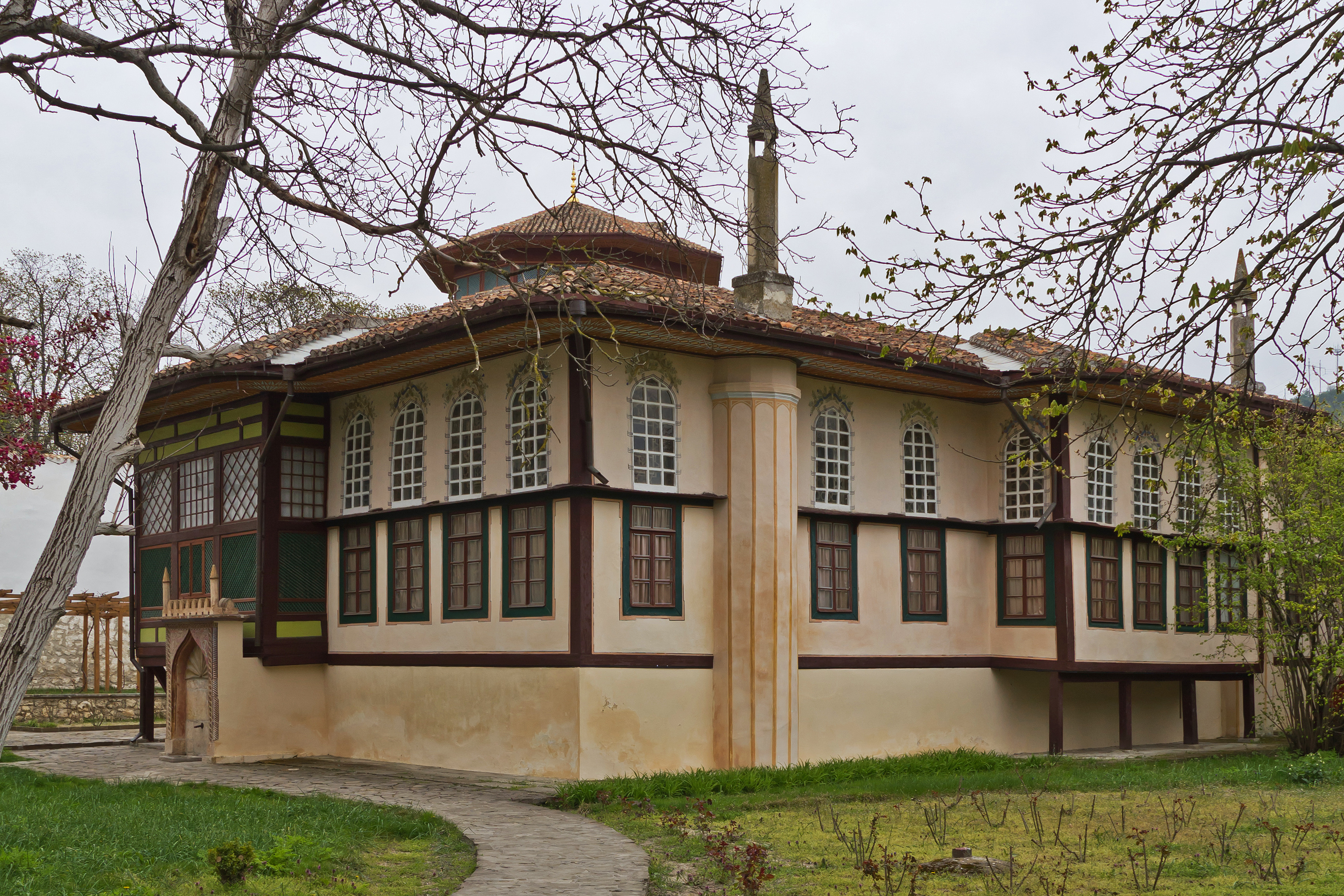 The Harem building of the Khan's Palace (Hansaray) in Bakhchisaray, Crimean Peninsula.